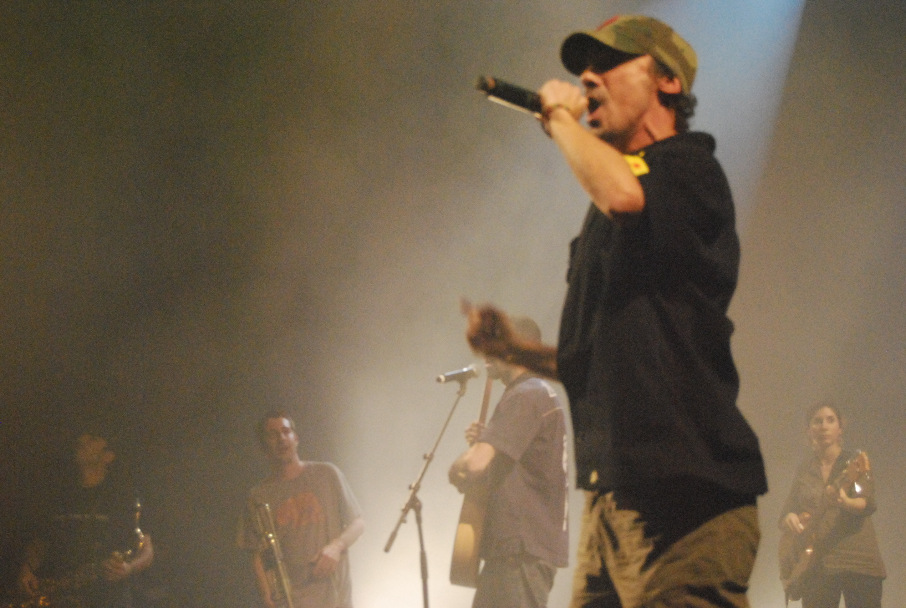 Manu Chao in Paris, Île-de-France (Guest from Les Ogres de Barback band)